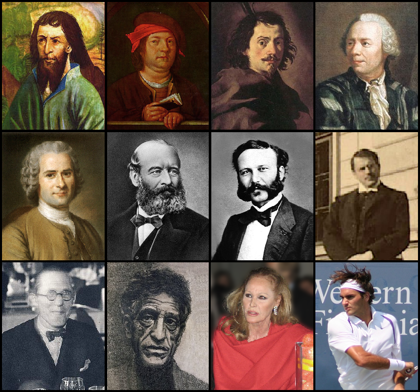 Notable Swiss: Nicholas of Flüe - File:Nicholas-Flue.jpg Paracelsus - File:Paracelsus01.jpg Francesco Borromini - File:Borromini.jpg Leonhard Euler - File:Leonhard Euler 2.jpg Jean-Jacques Rousseau - File:Rousseau.jpg Alfred Escher - File:Alfred Escher photo.jpg (retouched) Henry Dunant - File:Henry Dunant-young.jpg Carl Jung - File:Jung 1910-rotated.jpg Le Corbusier - File:Lallerstedt Corbusier Tengbom 1933.jpg Alberto Giacometti - File:Alberto-Giacometti,-etching-(author-Jan-Hladík-2002).jpg (retouched) Ursula Andress - File:Ursula Andress and London based Swiss star chef Anton Mosimann at Somerset House in 2004.JPG (retouched) Roger Federer - File:Federer Cincinnati (2007).jpg